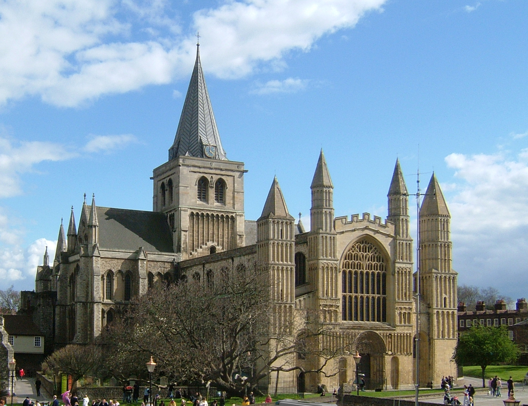 Rochester Cathedral 2006